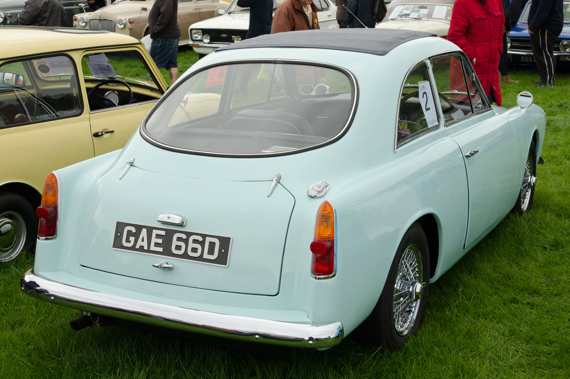 Llandudno Transport Festival 03/05/2014